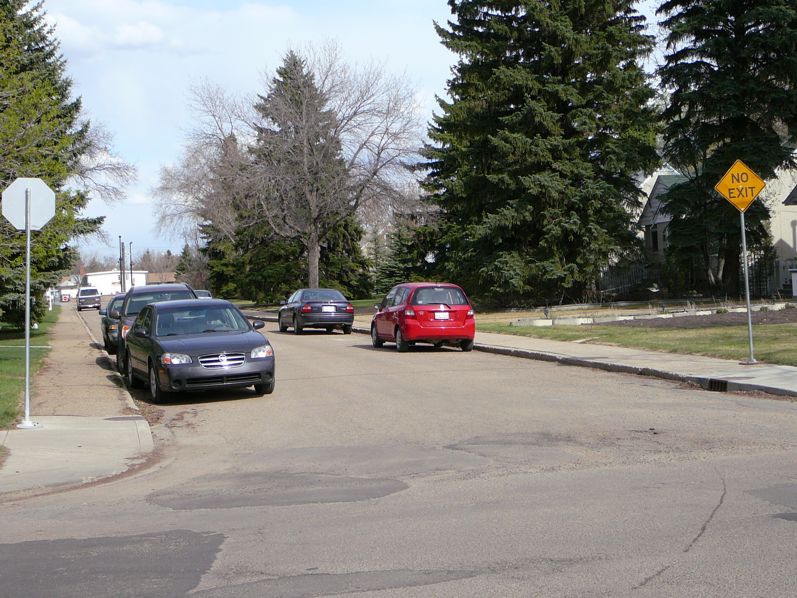 Residential street in the neighbourhood of Belgravia